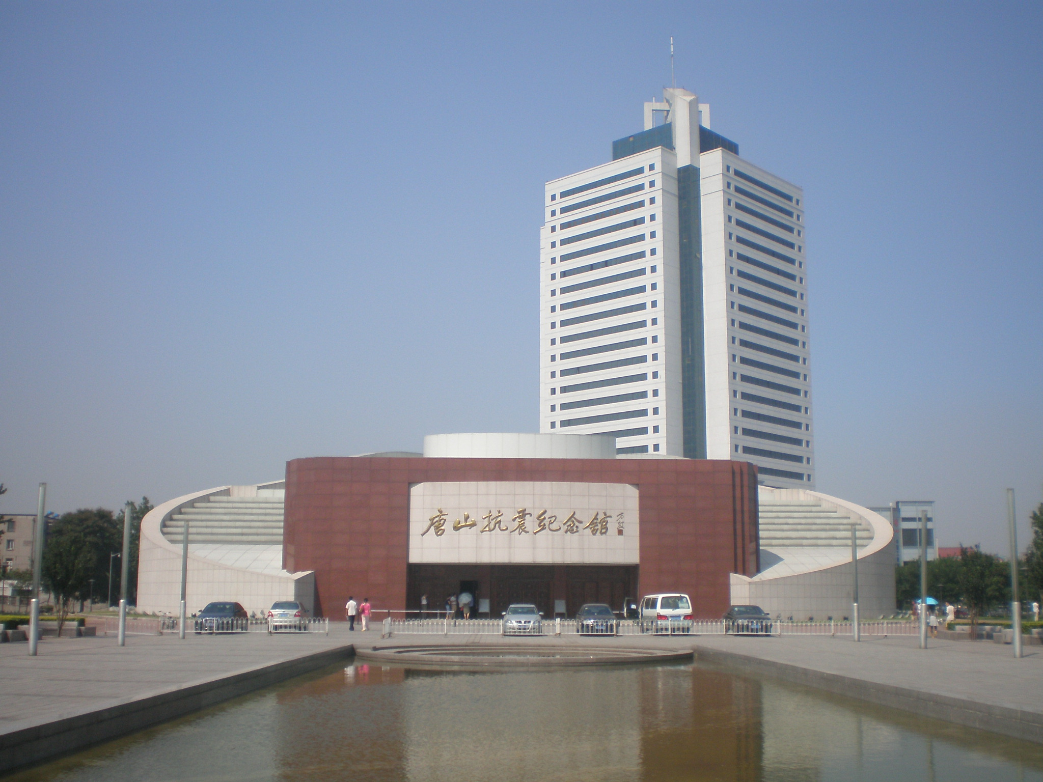 In Tangshan, Hebei